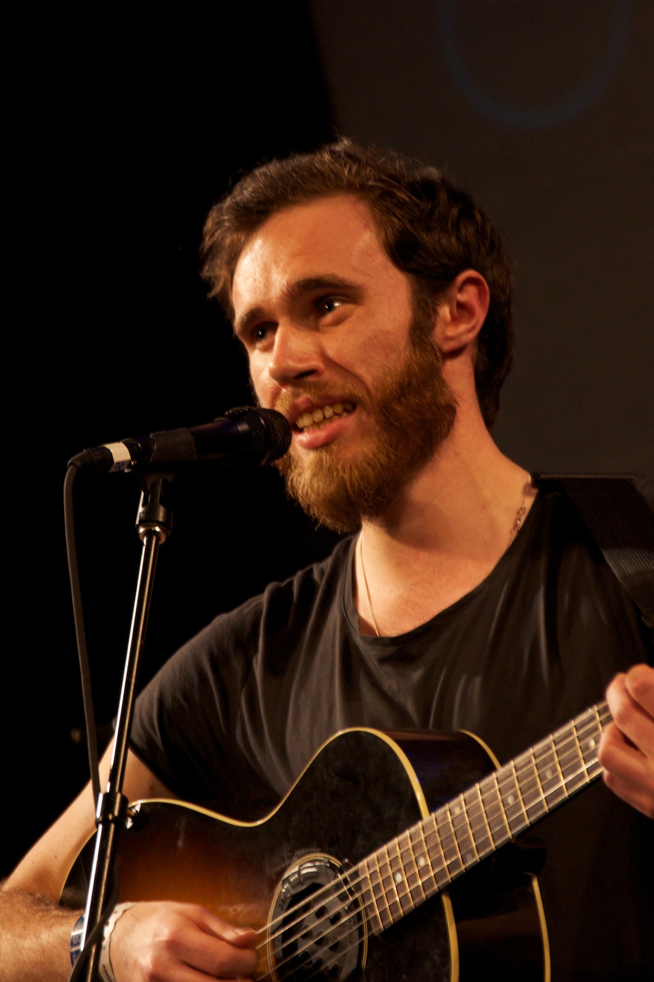 James Vincent McMorrow performing at the 2011 SXSW Music festival.